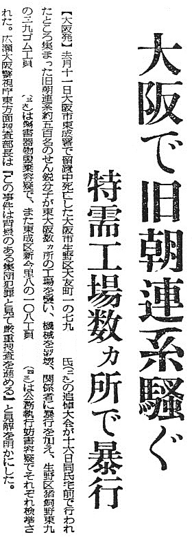 Mainichi Shimbun newspaper clipping (17 December 1951 issue)